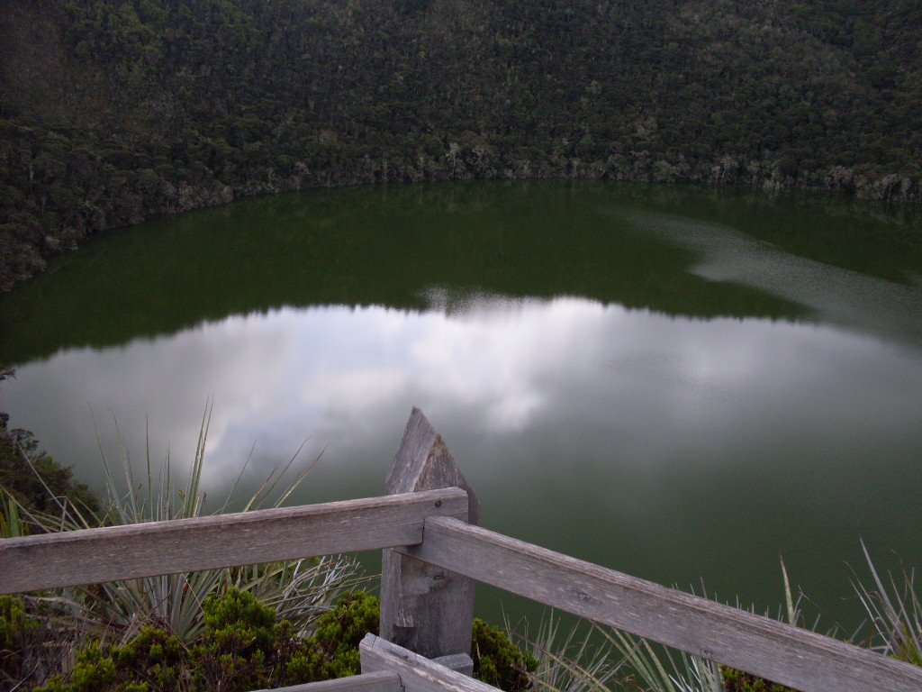 Laguna de Guatavita